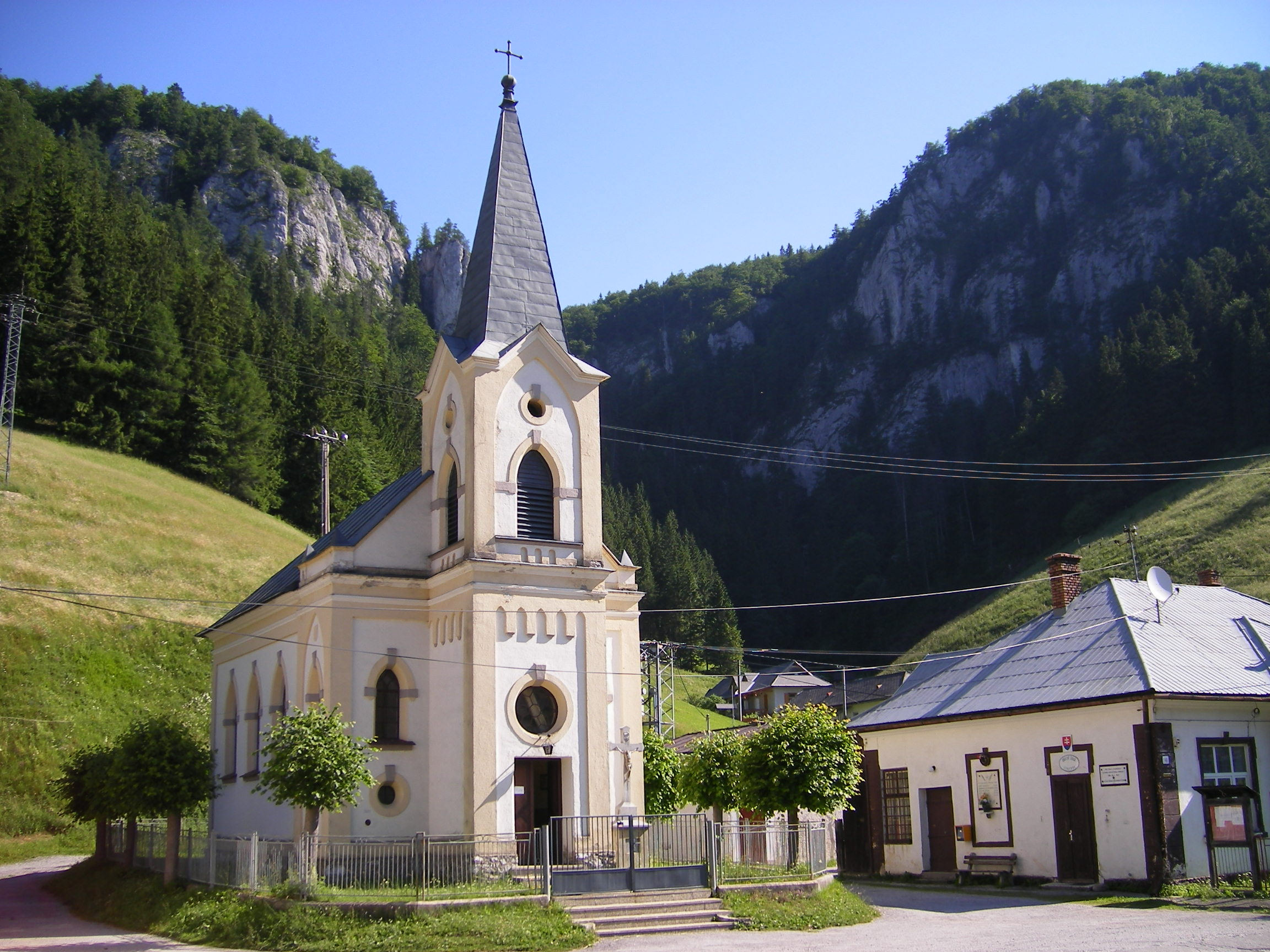 Stratená (RV), catholic church